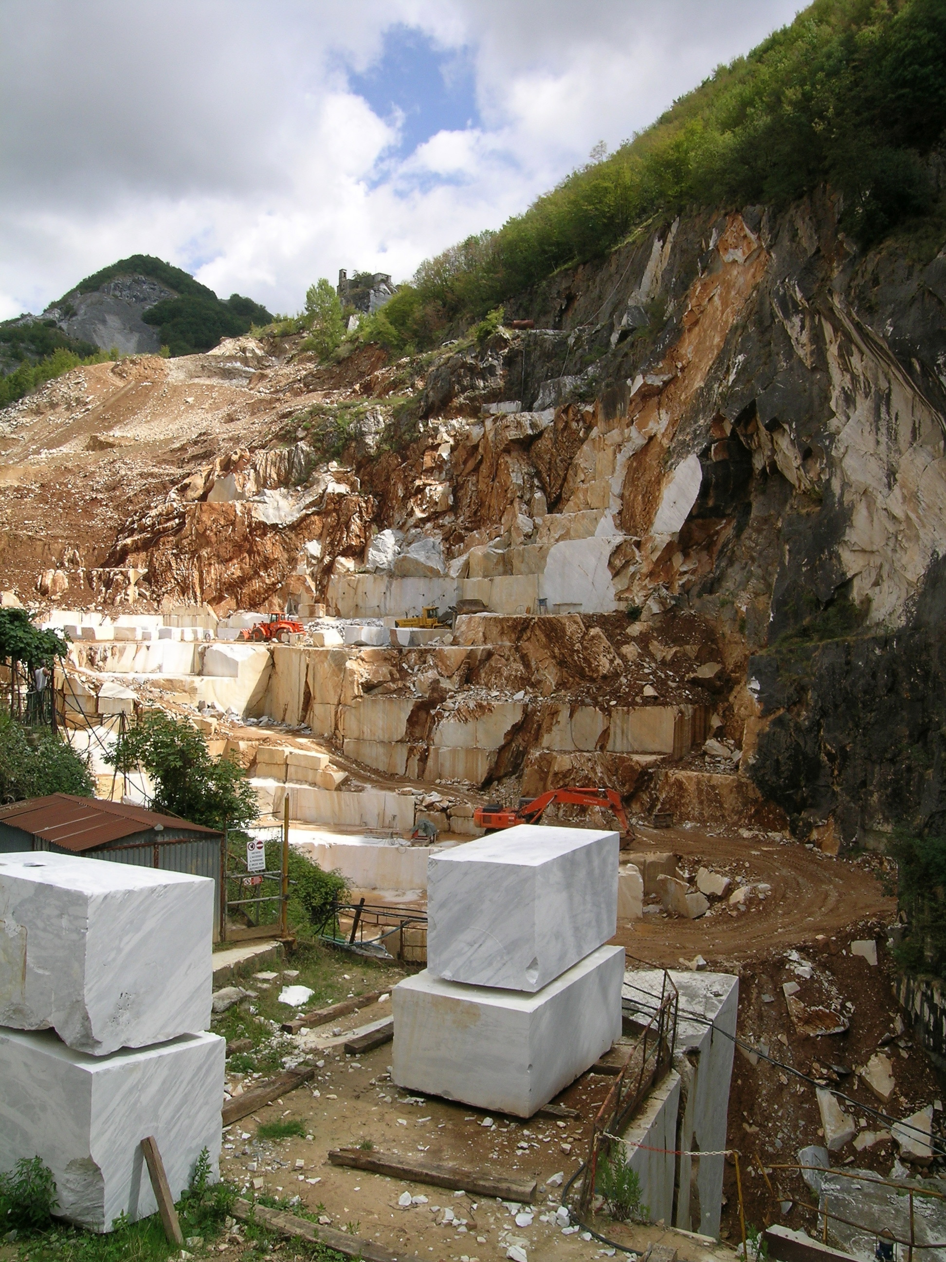 Marble quarry in the Apuan Alps, over the town of Carrara (Tuscany, Italy). Photo by Michele Buzzi, Studio Cicero, Milano, 2006.